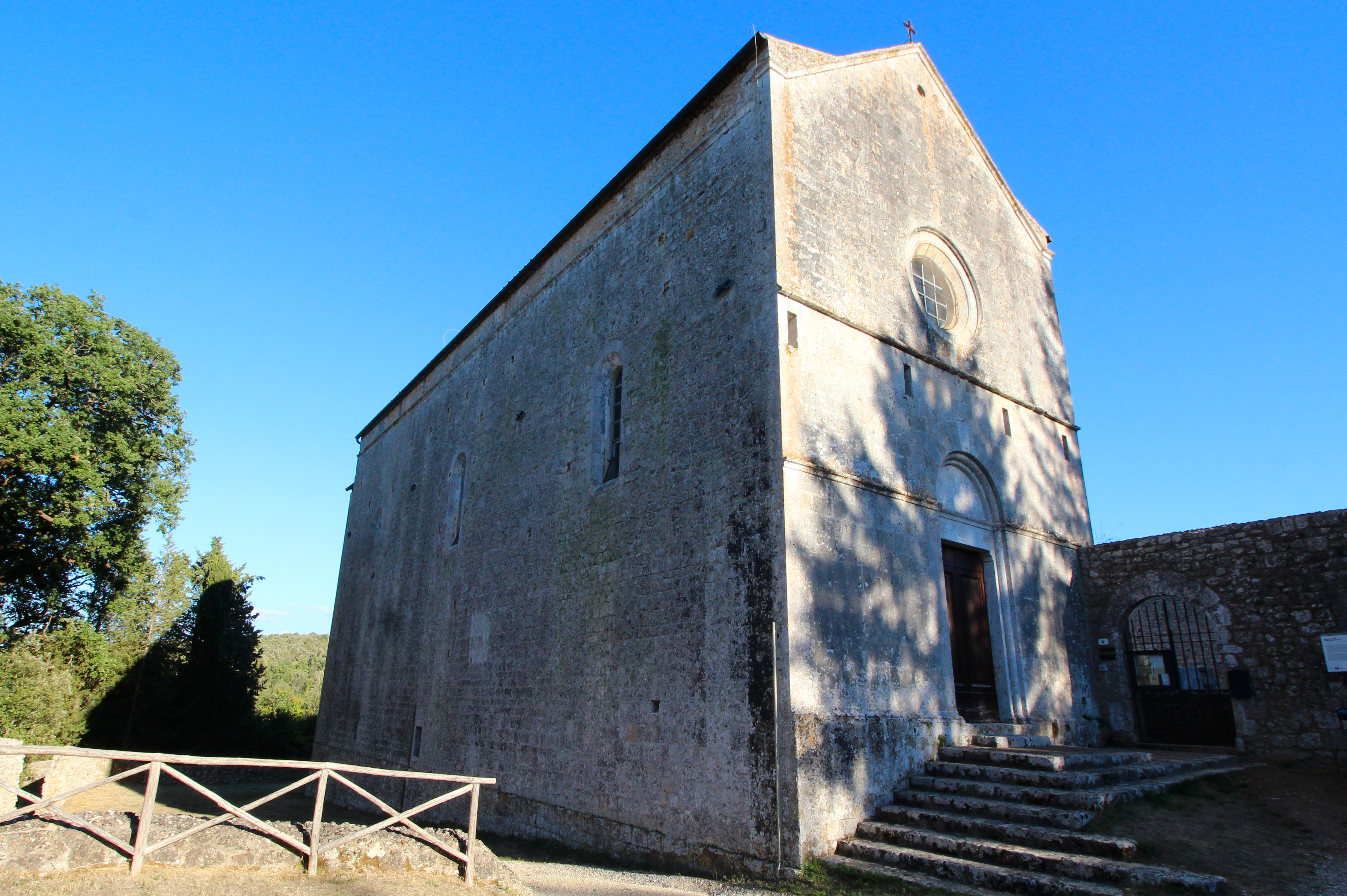 Heritage Eremo di San Leonardo al Lago, territory of Monteriggioni, Province of Siena, Tuscany, Italy